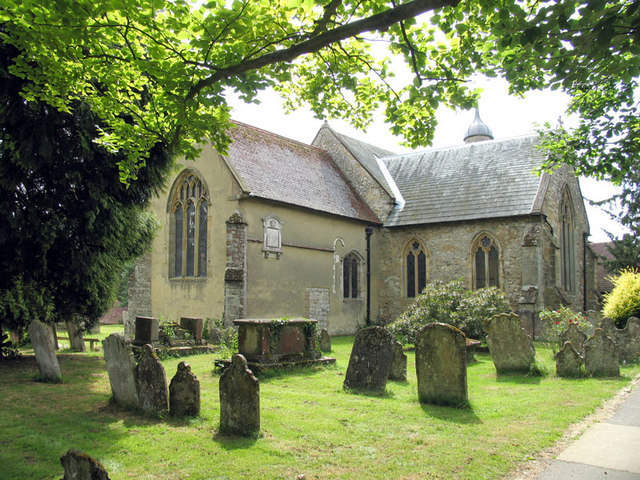 St Peter & St Paul, Yalding, Kent